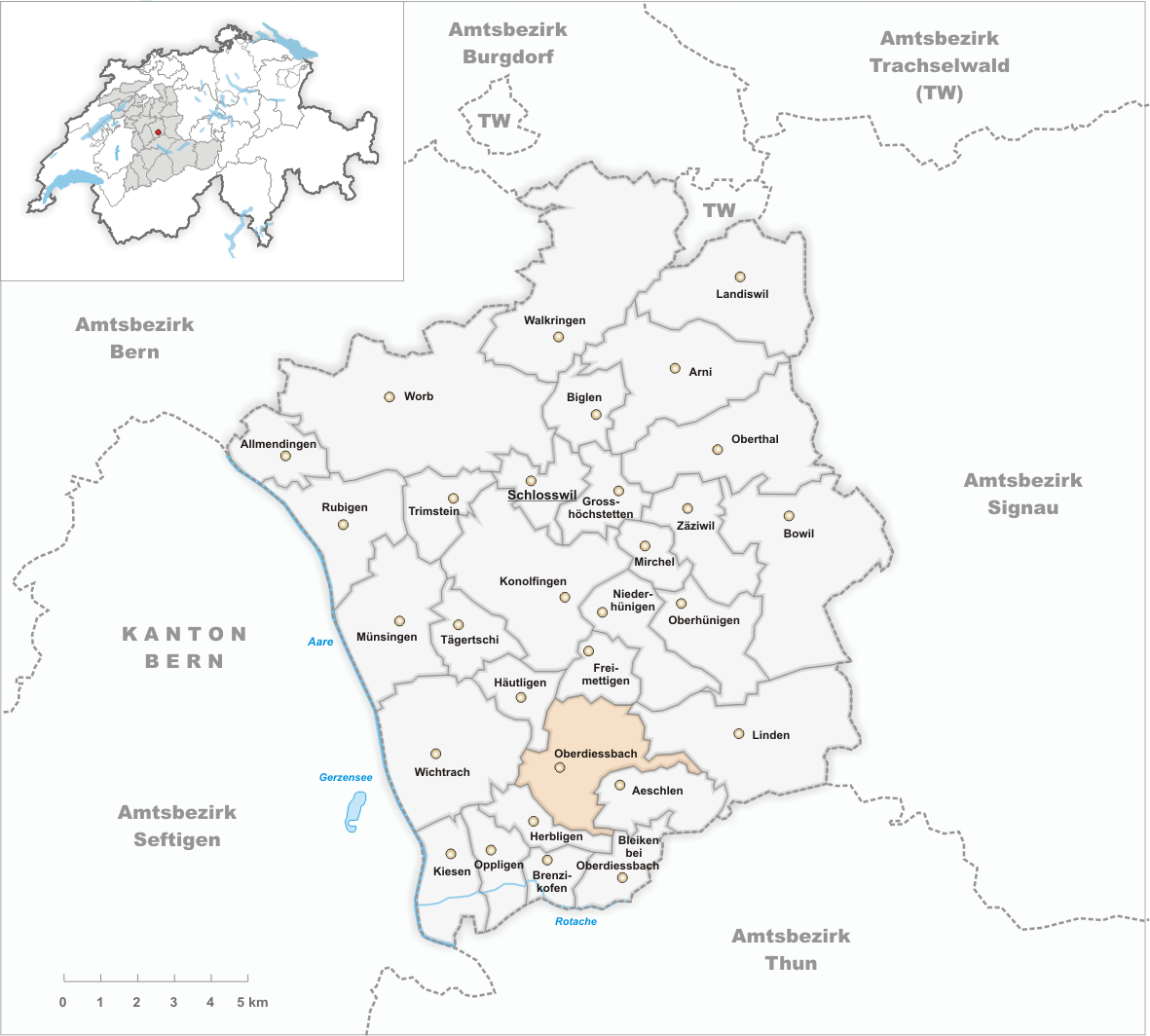 Municipality Oberdiessbach